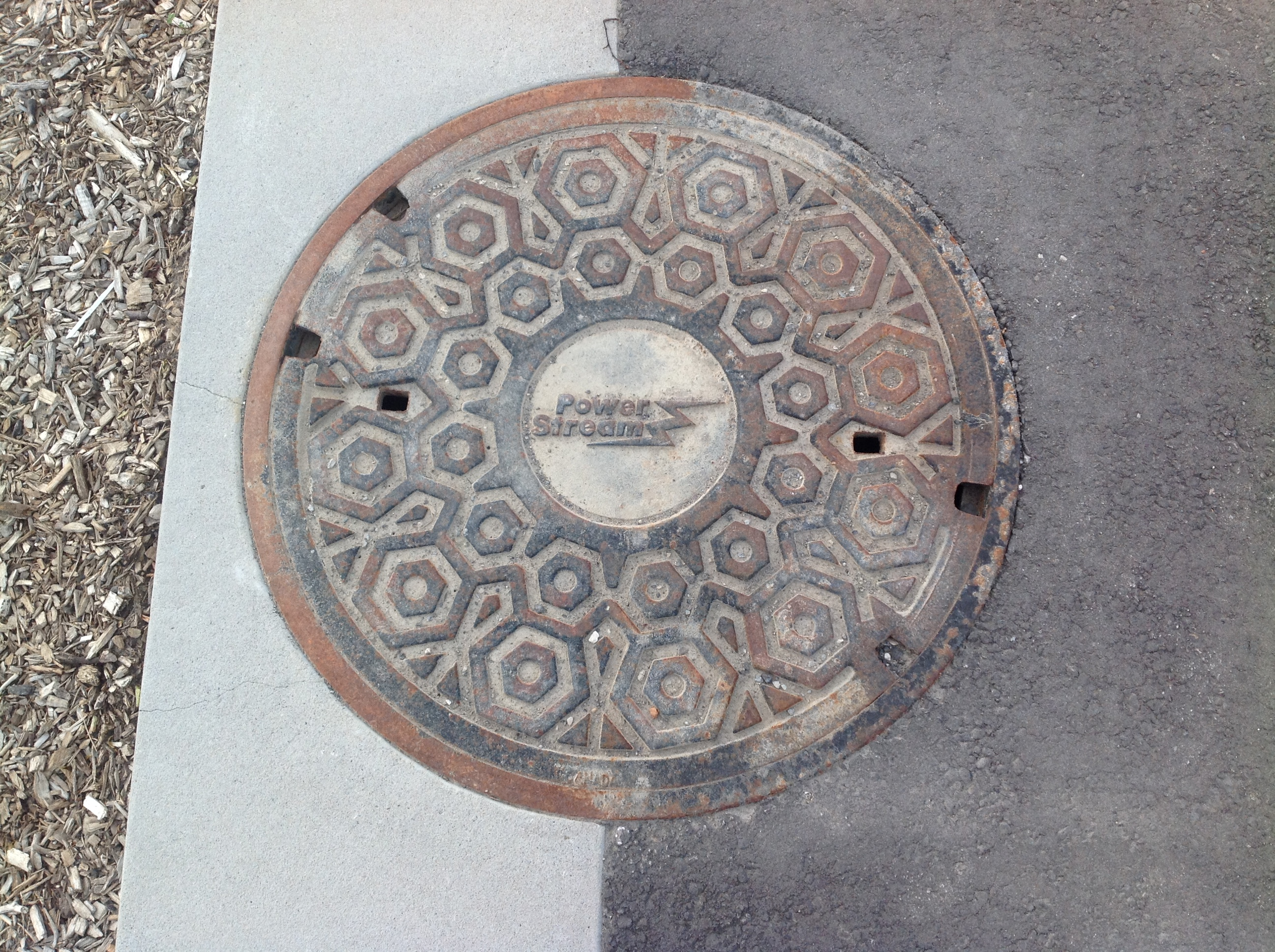 Manhole cover with the logo of PowerStream in Vaughan, Ontario, Canada.